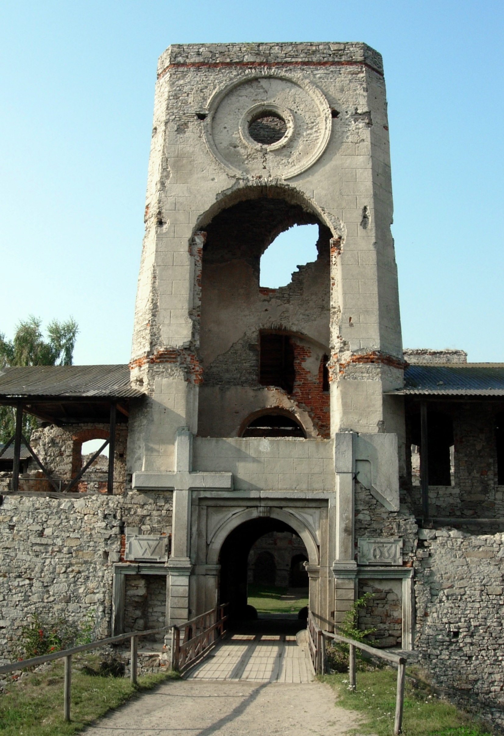 The ruins of Krzyżtopór Castle in Ujazd, Święty Krzyż Voivodship, Poland